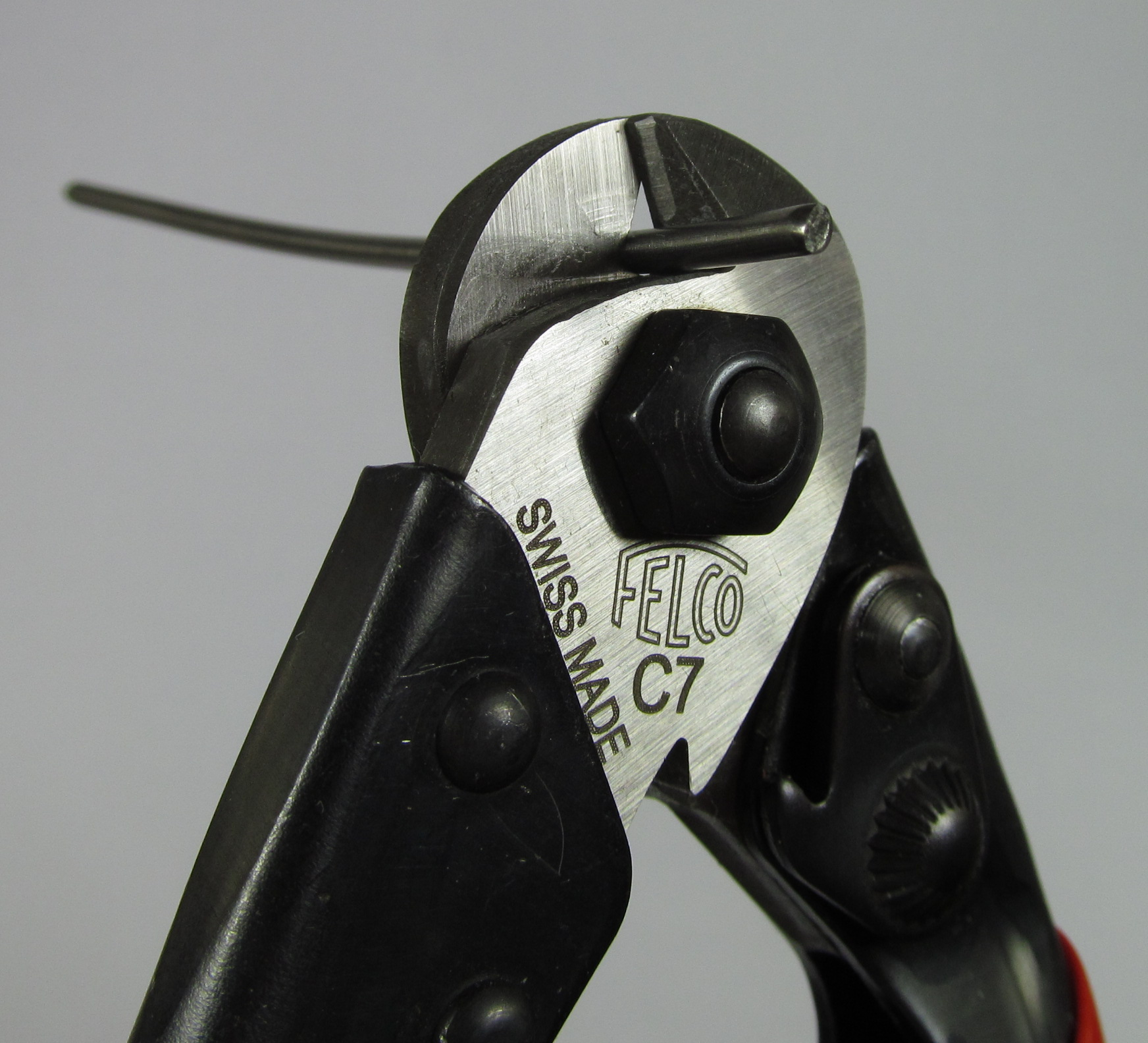 Wire cutter with wire